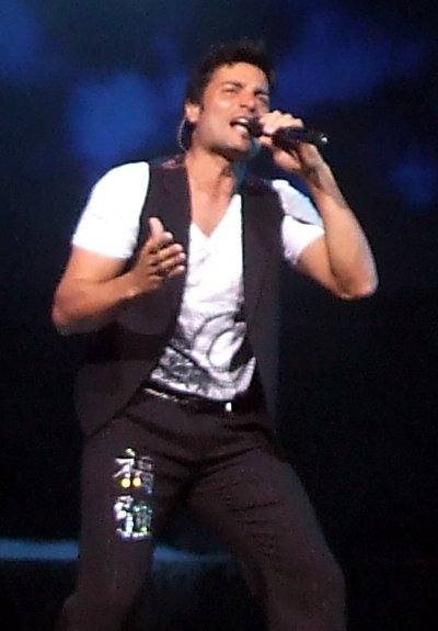 Chayanne performing at the Nokia Theatre in Grand Prairie, Texas, United States